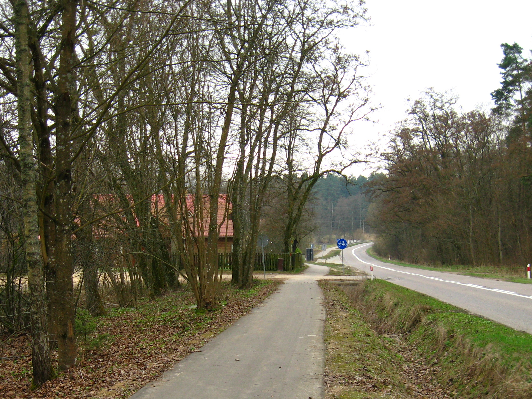 Krasne — by the VR676